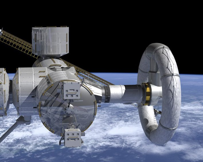 Nautilus-X Demo attached to Node 1 forward.